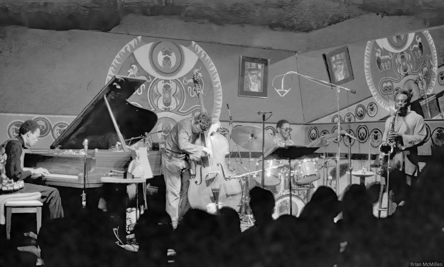 Old and New Dreams at Keystone Korner, San Francisco CA 12/30/78 l-r: Don Cherry; Charlie Haden; Ed Blackwell; Dewey Redman Photo: Brian McMillen /